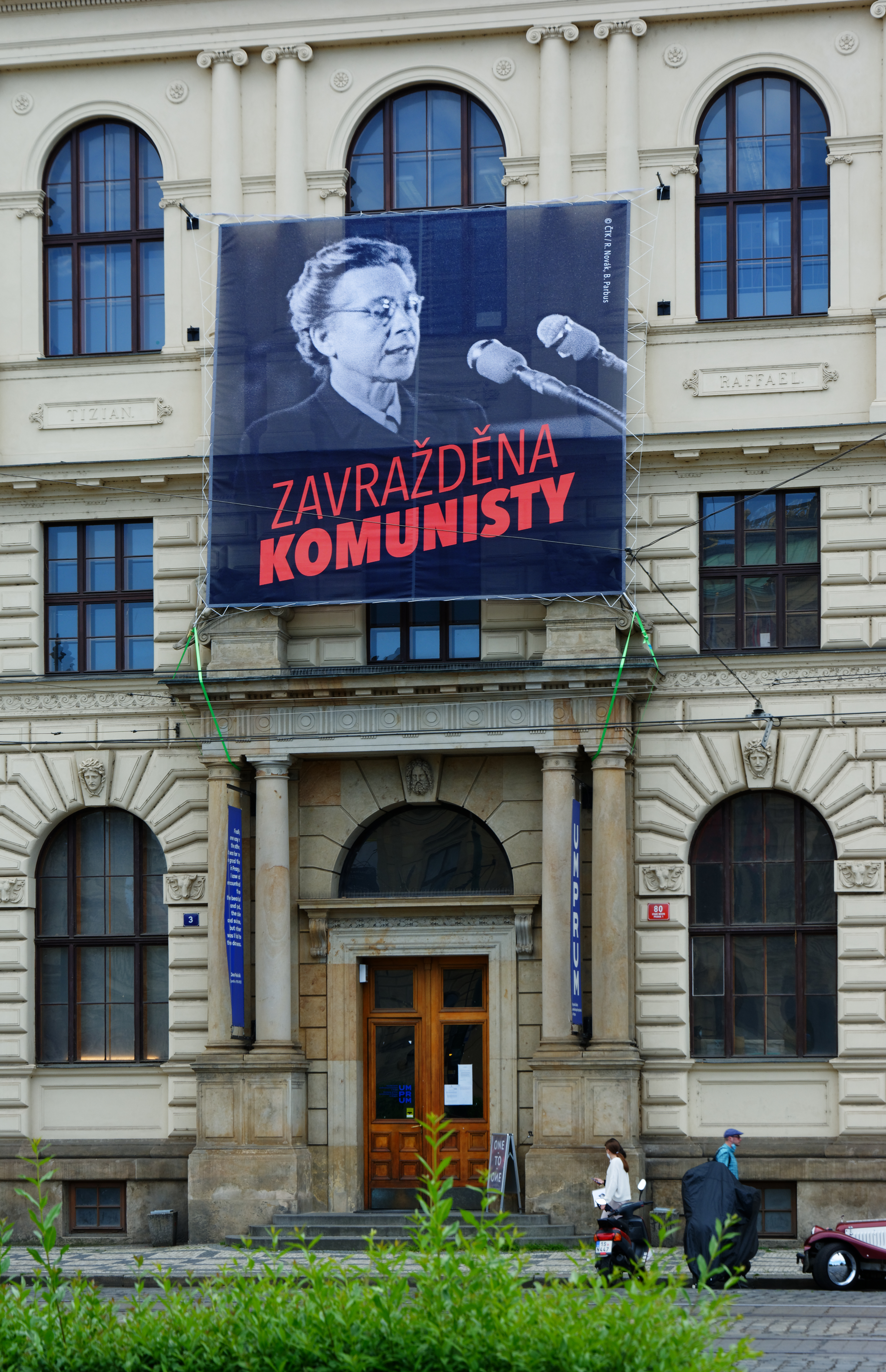 Commemoration of the 70th anniversary of the death of Dr. Milada Horáková, who was assassinated by the Communists on June 27, 1950. Part of the Milada 70 commemorative campaign. Poster on the facade of the Academy of Arts, Architecture and Design. Prague 1, Palachovo namesti.